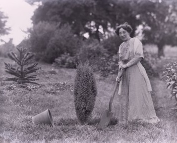 File: Photograph by Colonel Blathwayt. He was the father of Mary Blathwayt and they lived at Eagle House in Somerset. The pictures were taken between 1909 and 1911